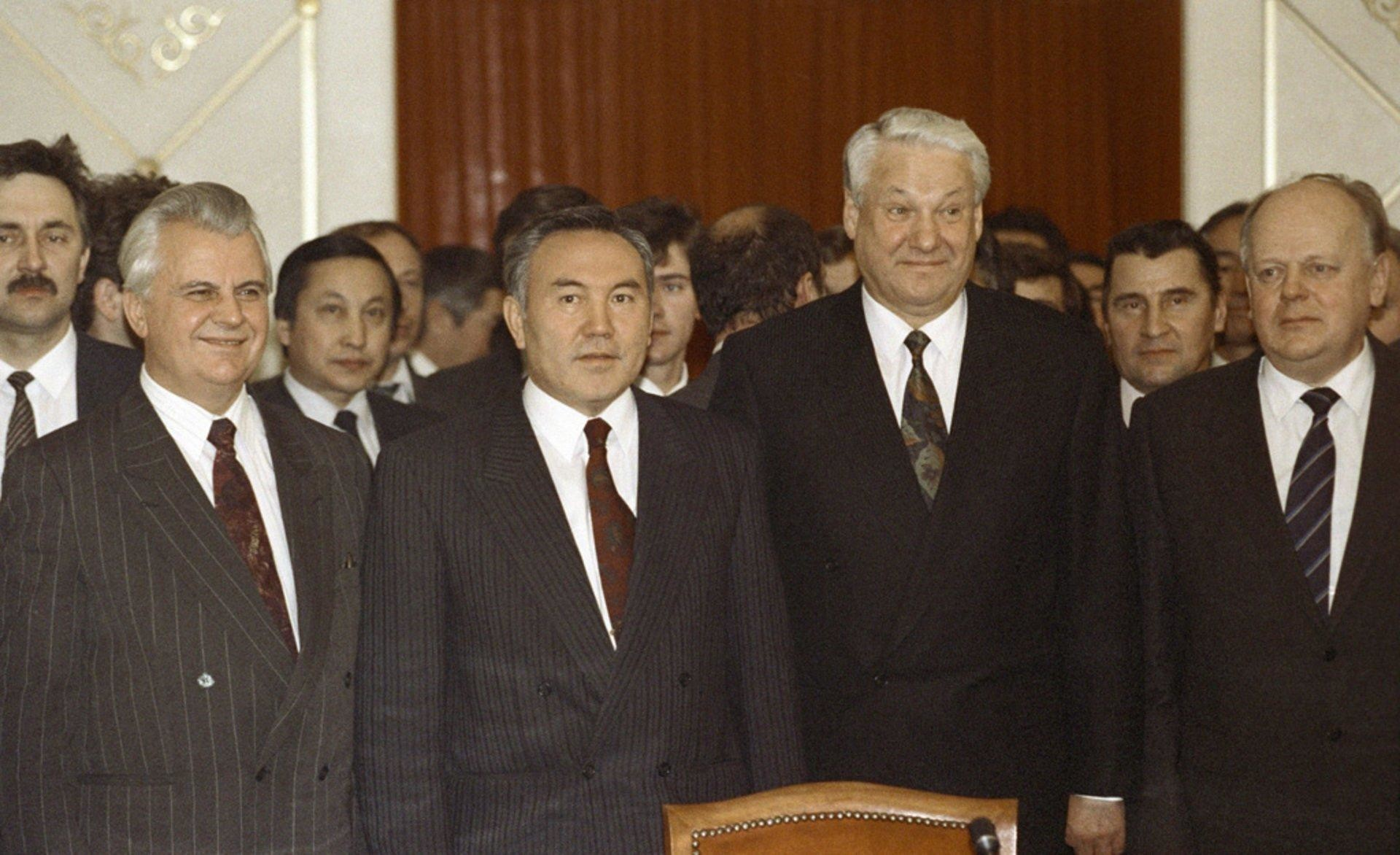 “CIS heads of state”. Russian President Boris Yeltsin (second right), Ukrainian President Leonid Kravchuk (left), Kazakh President Nursultan Nazarbayev (second left) and Speaker of Belarusian Supreme Soviet (Parliament) Stanislav Shushkevich (right) after signing Protocol on Establishing the Commonwealth of Independent States (CIS).